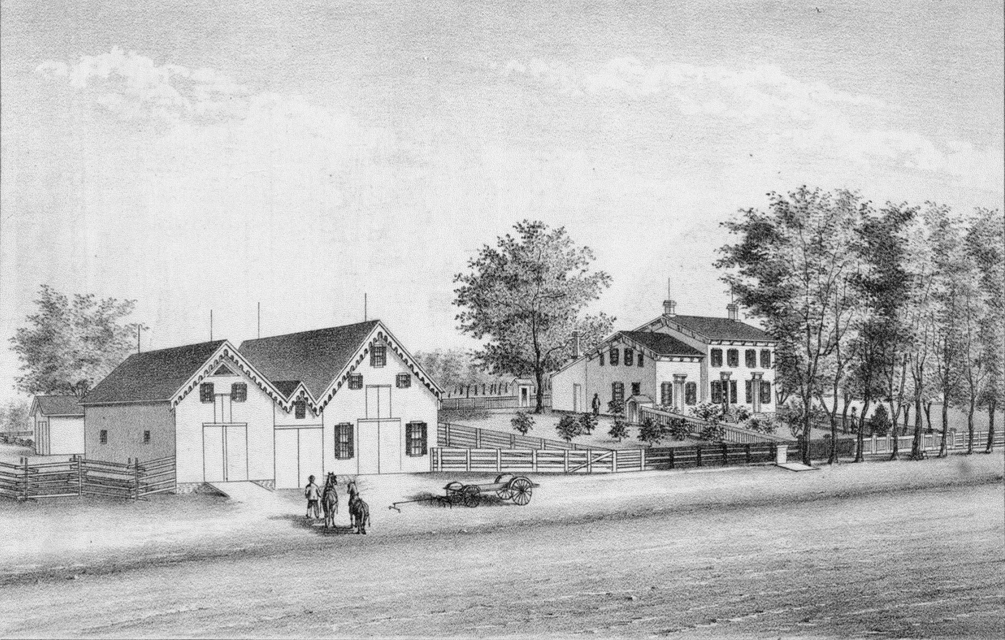 The homestead of George Niles in Troy Township, Michigan, circa 1877.